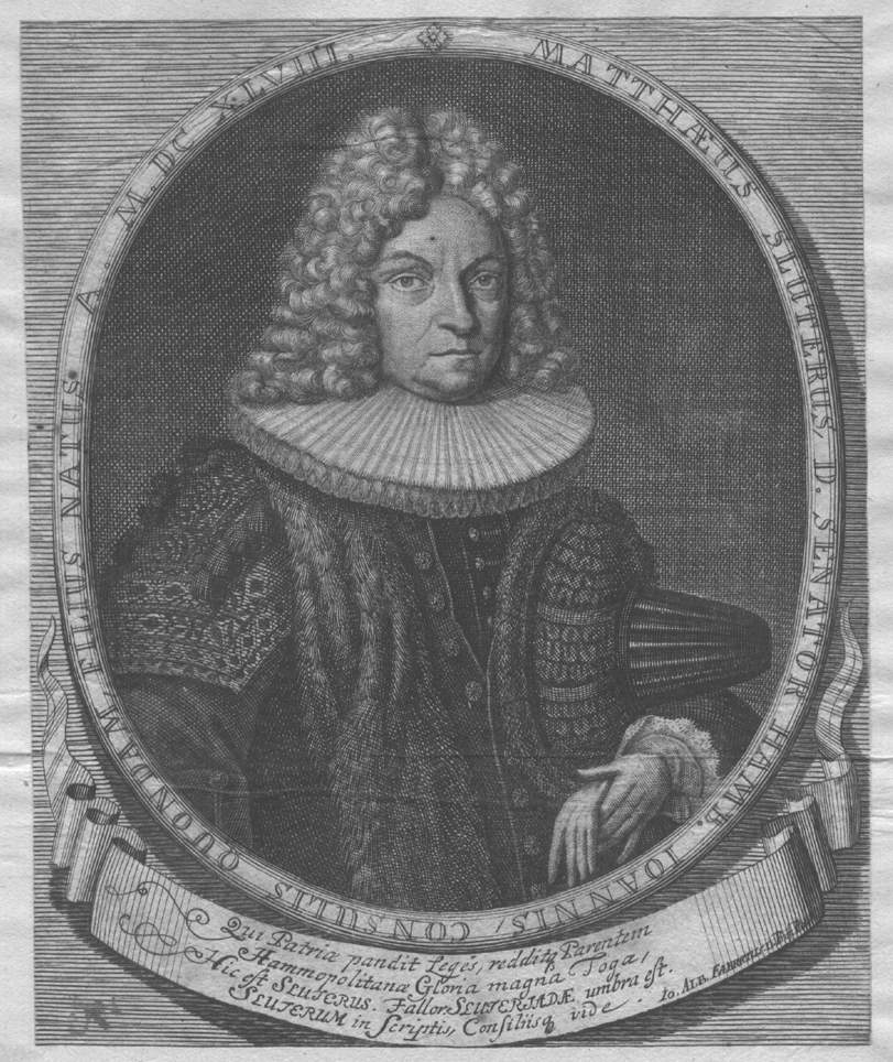 Portrait of Hamburg Senator Matthaeus Schlueter (1648-1719), engraving, 193x157 mm